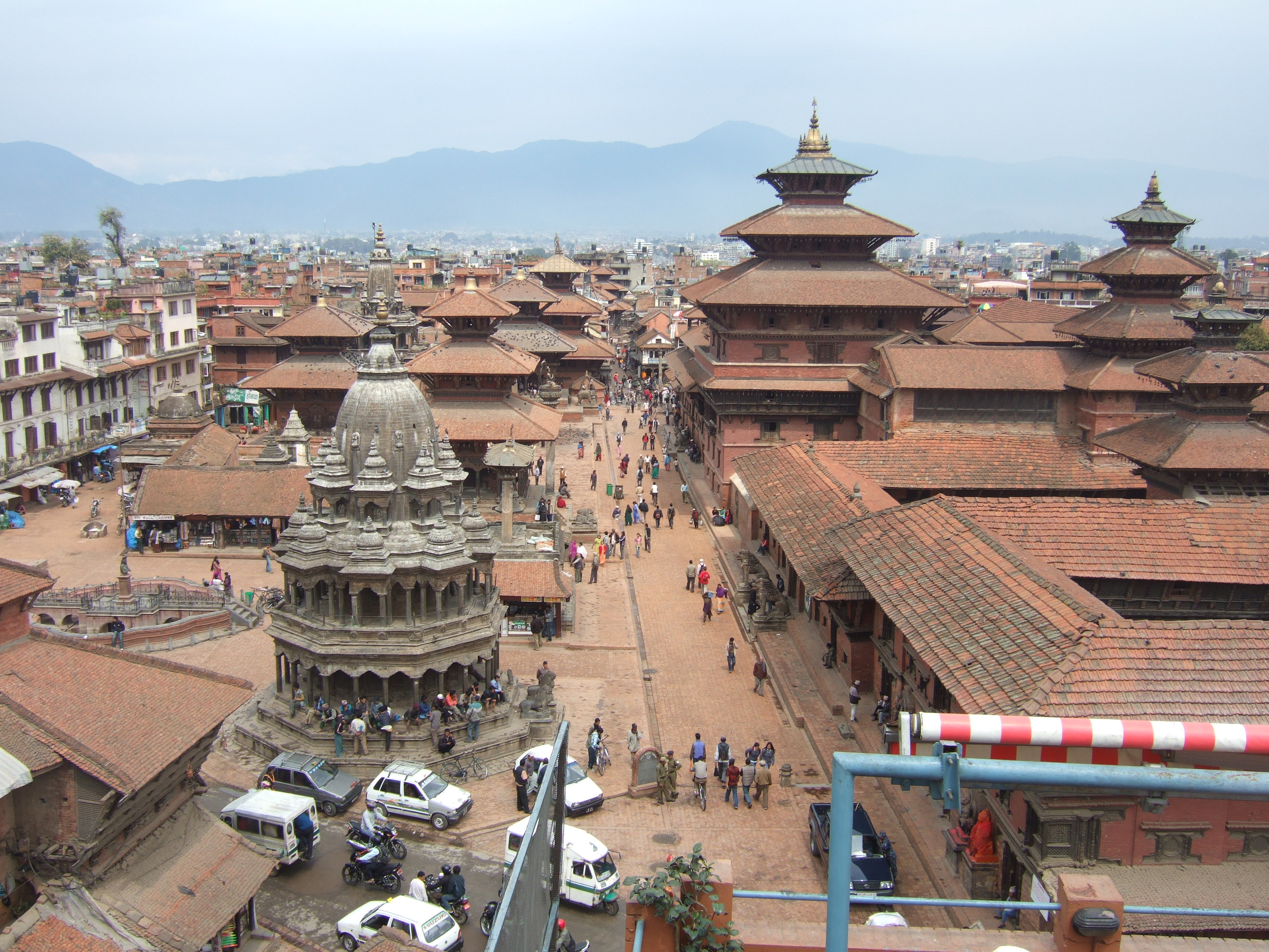 Patan Durbar Square in the town of Patan, Nepal. The Old Royal Palace is in the right and a row of Hindu Temples in the left.